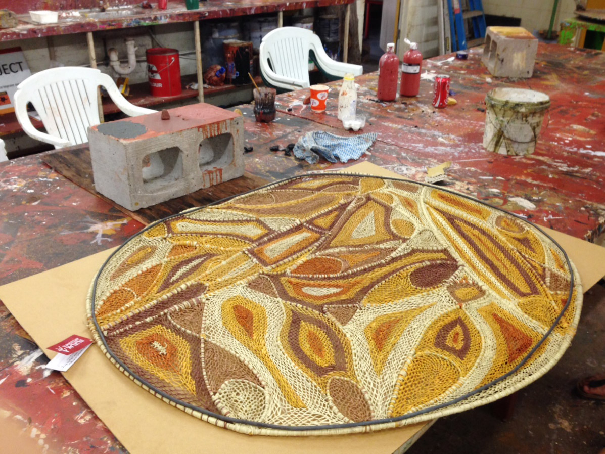 The screenprinting room at Injalak Arts in Gunbalanya. The fibre work on the table is by Ganbaladj Nabegeyo and is being prepared for display.